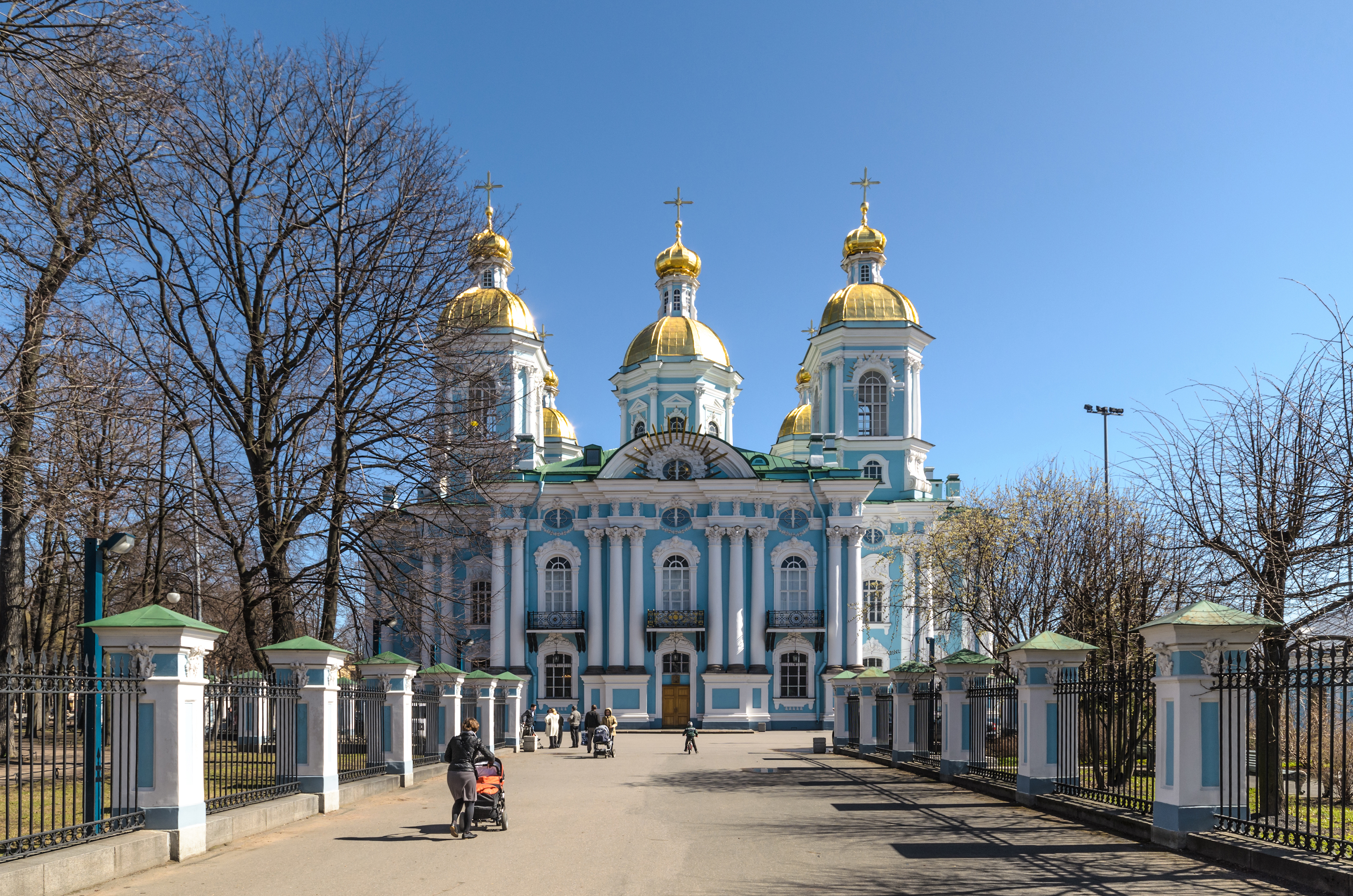 Nikolsky Cathedral in Saint Petersburg